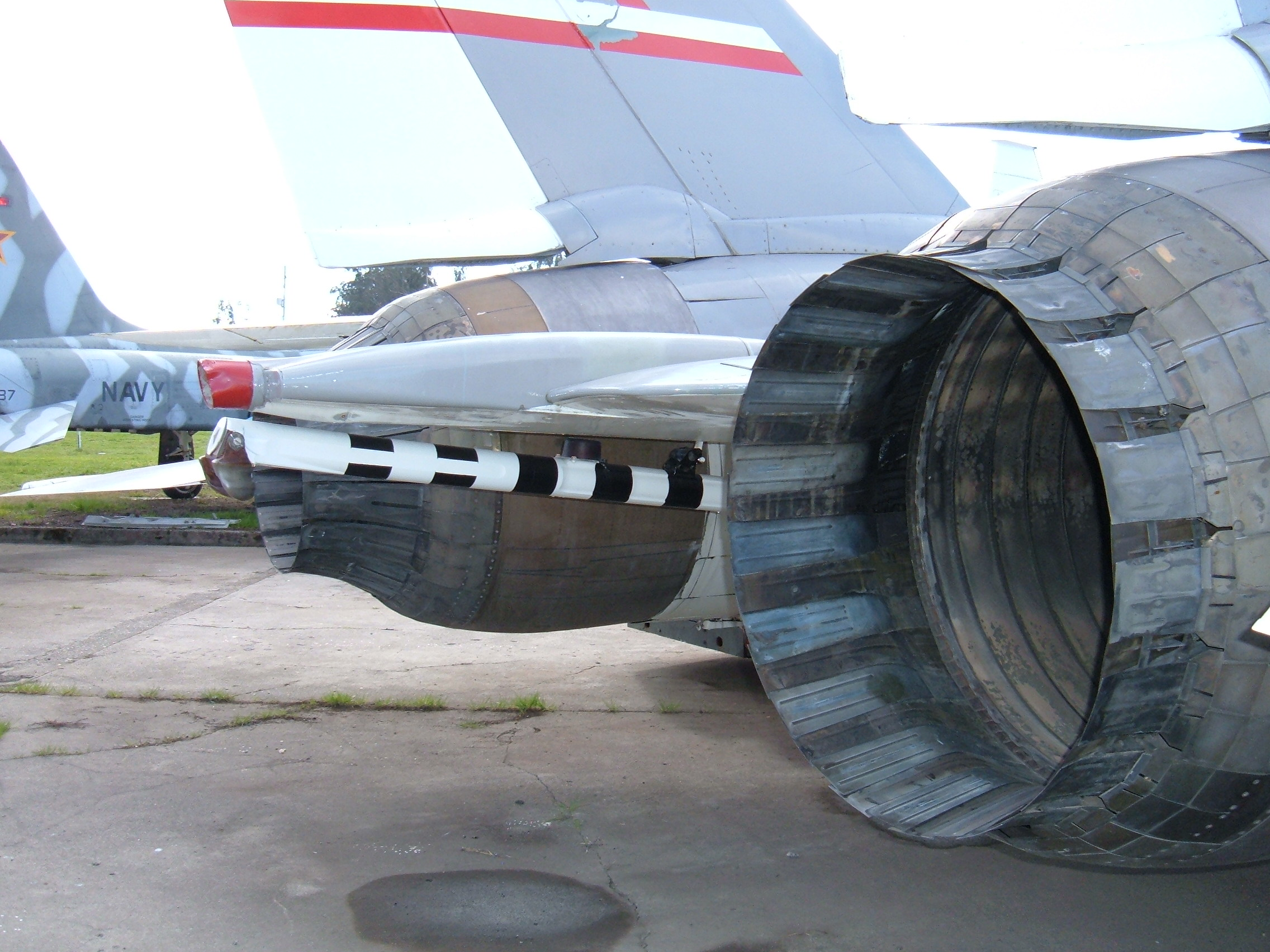 The tailhook of an F-14A Tomcat on display at the Pacific Coast Air Museum in Santa Rosa, California.